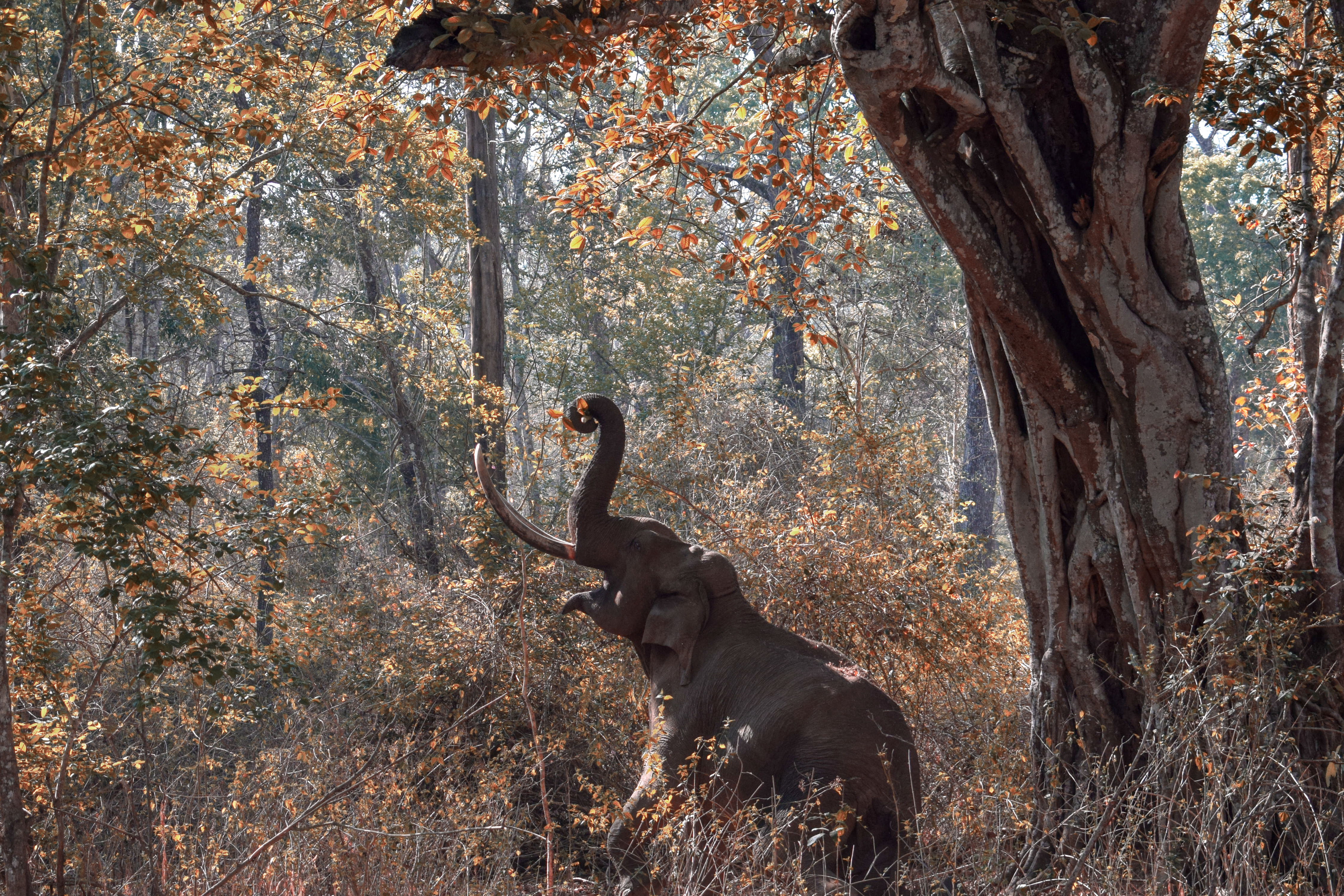 Elephant of nagarhole tries to get the leaf from a tree